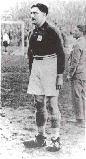 Urbain Wallet in France national football team, undetermined match between 1925 and 1929.